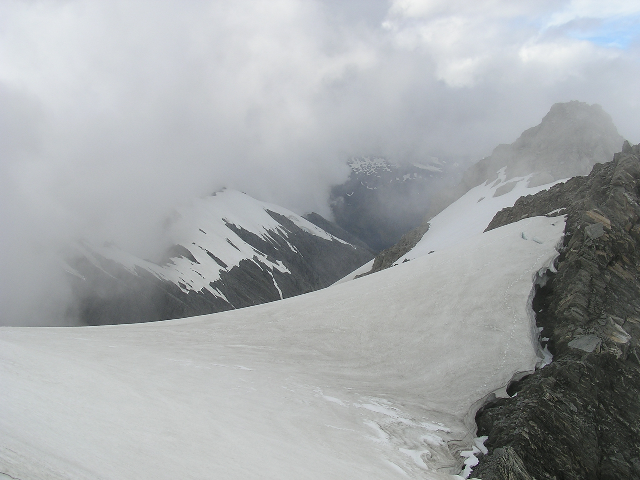 Summit of Mt Adams (at left) from point 2194m. Seige Glacier to right. Late summer conditions.